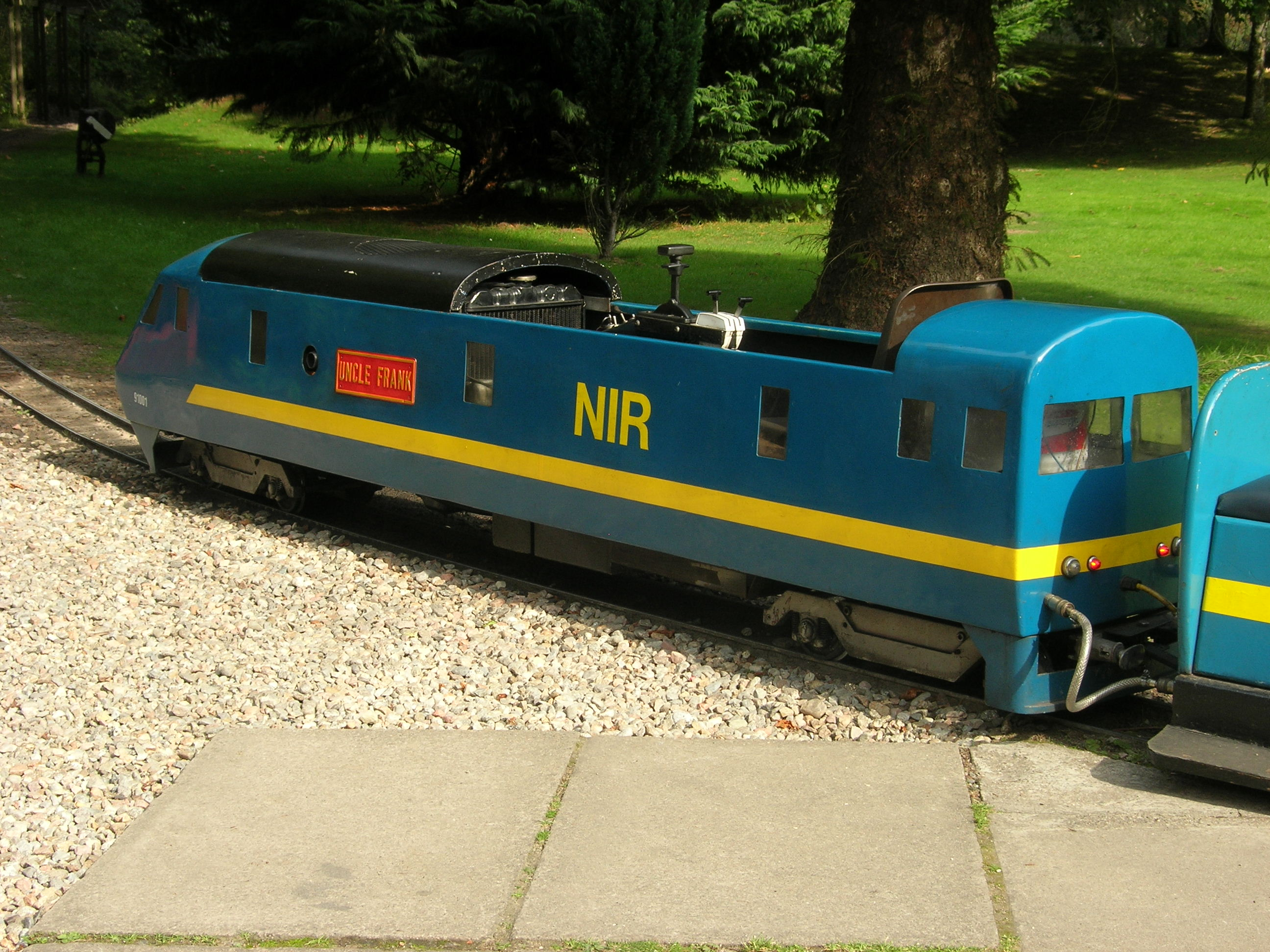 Locomotive "Uncle Frank" on the Ness Islands Railway, Inverness, Scotland.